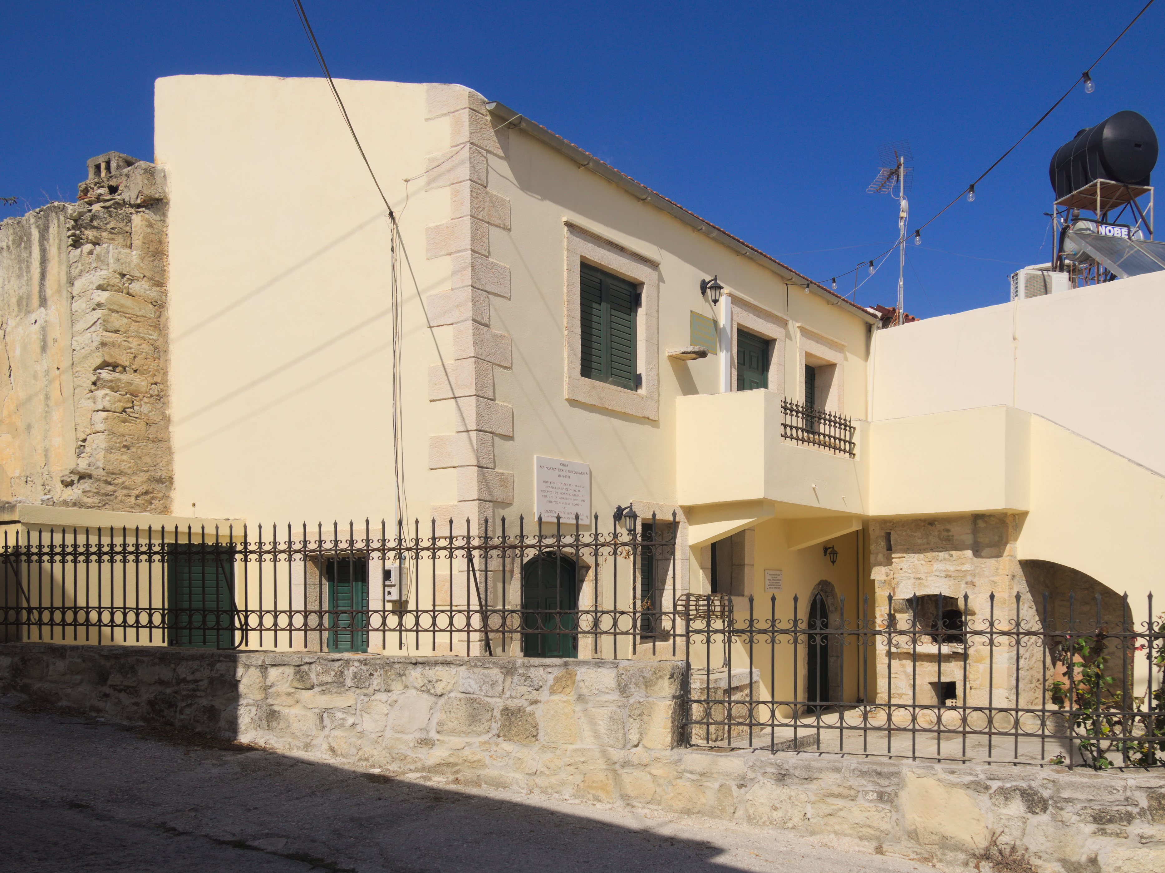 The house of Nikolaos Krasadakis (1899-1971) in Petrokefalo, Heraklion.